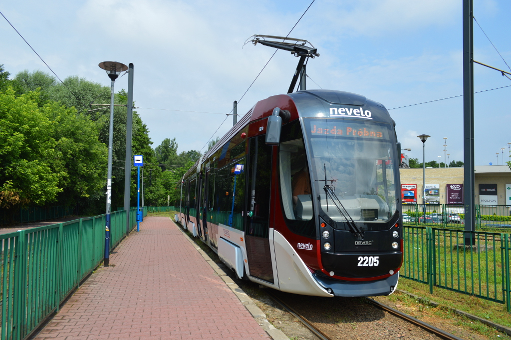 Jazda próbna w Borku Fałęckim